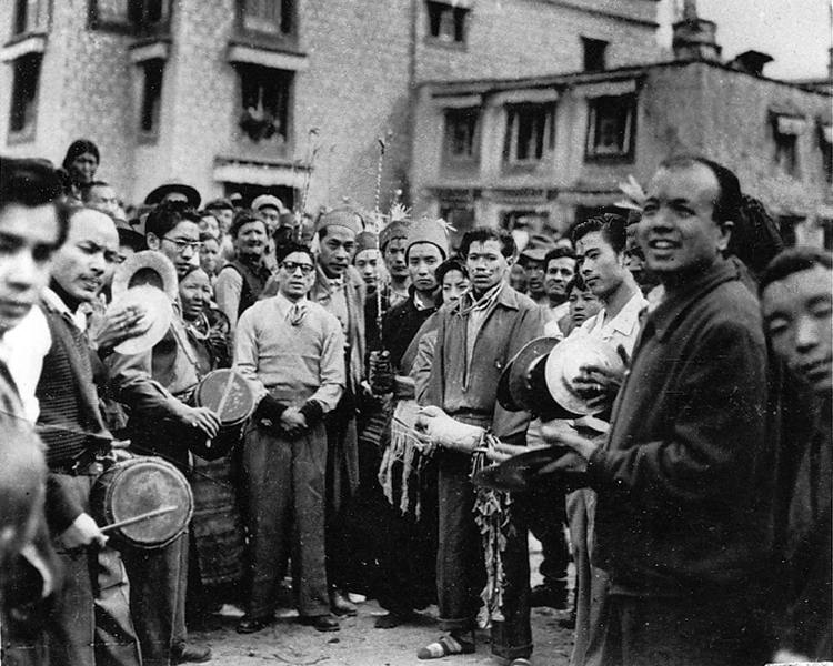 Newar merchants in Lhasa hold Paya sword procession during Mohani festival, ca 1950s.